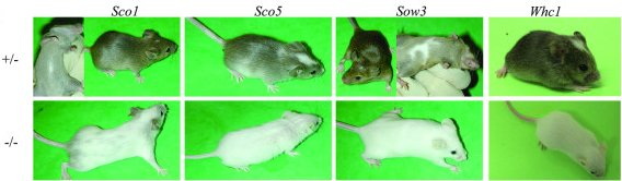 New ENU-induced alleles at the Kit locus. (A) Three new point mutations inducing loss-of-function of the KIT protein (Sco1, Sco5 and Whc1) and one potential mutation affecting the regulation of the Kit gene (Sow3). Heterozygous individuals carrying the Sco1, Sco5, Sow3 and Whc1 mutations display white spotting on the belly and a white forehead blaze while homozygotes (-/-) have a white coat color with black eyes.